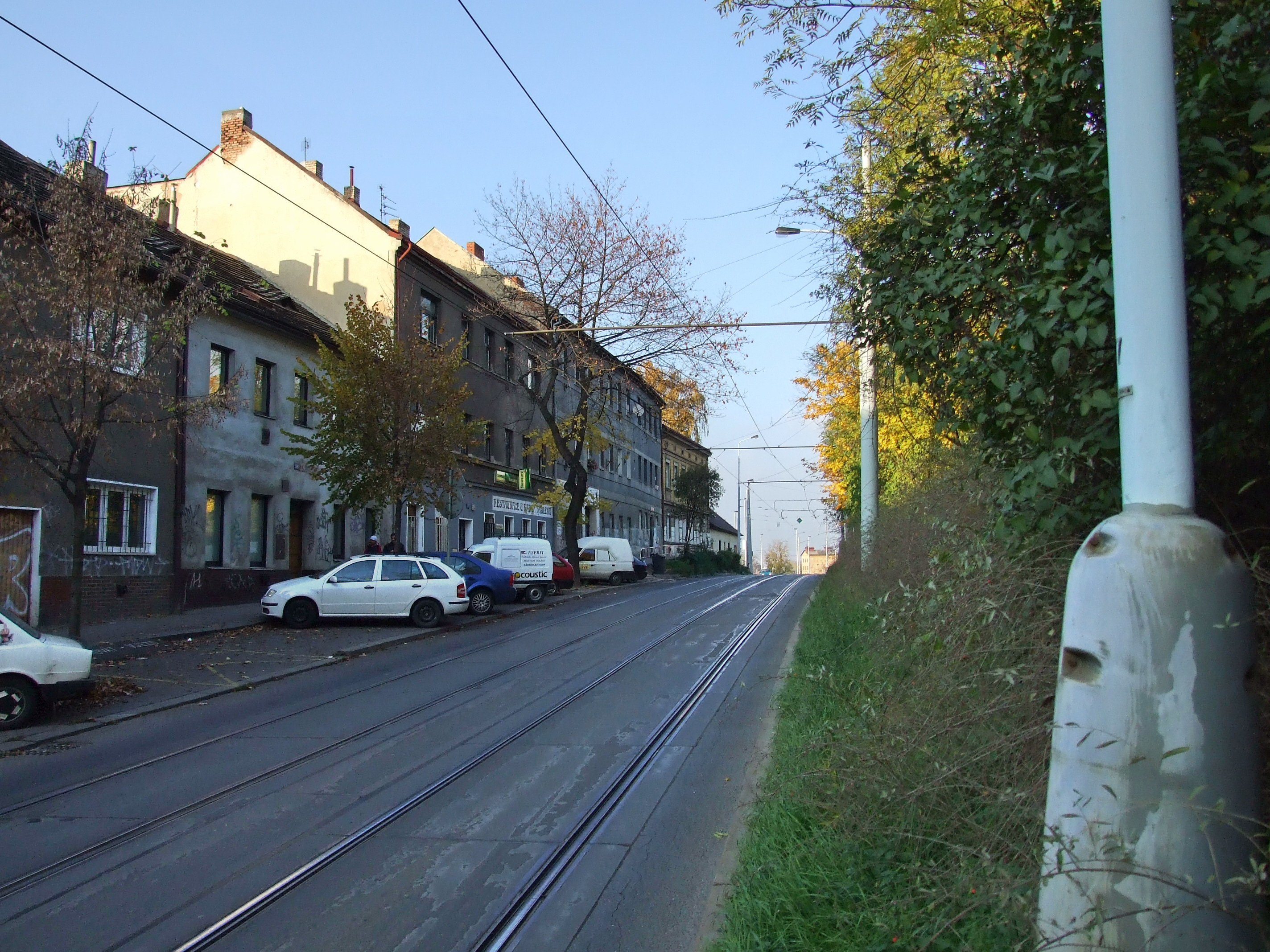 Zlíchov, part of Prague